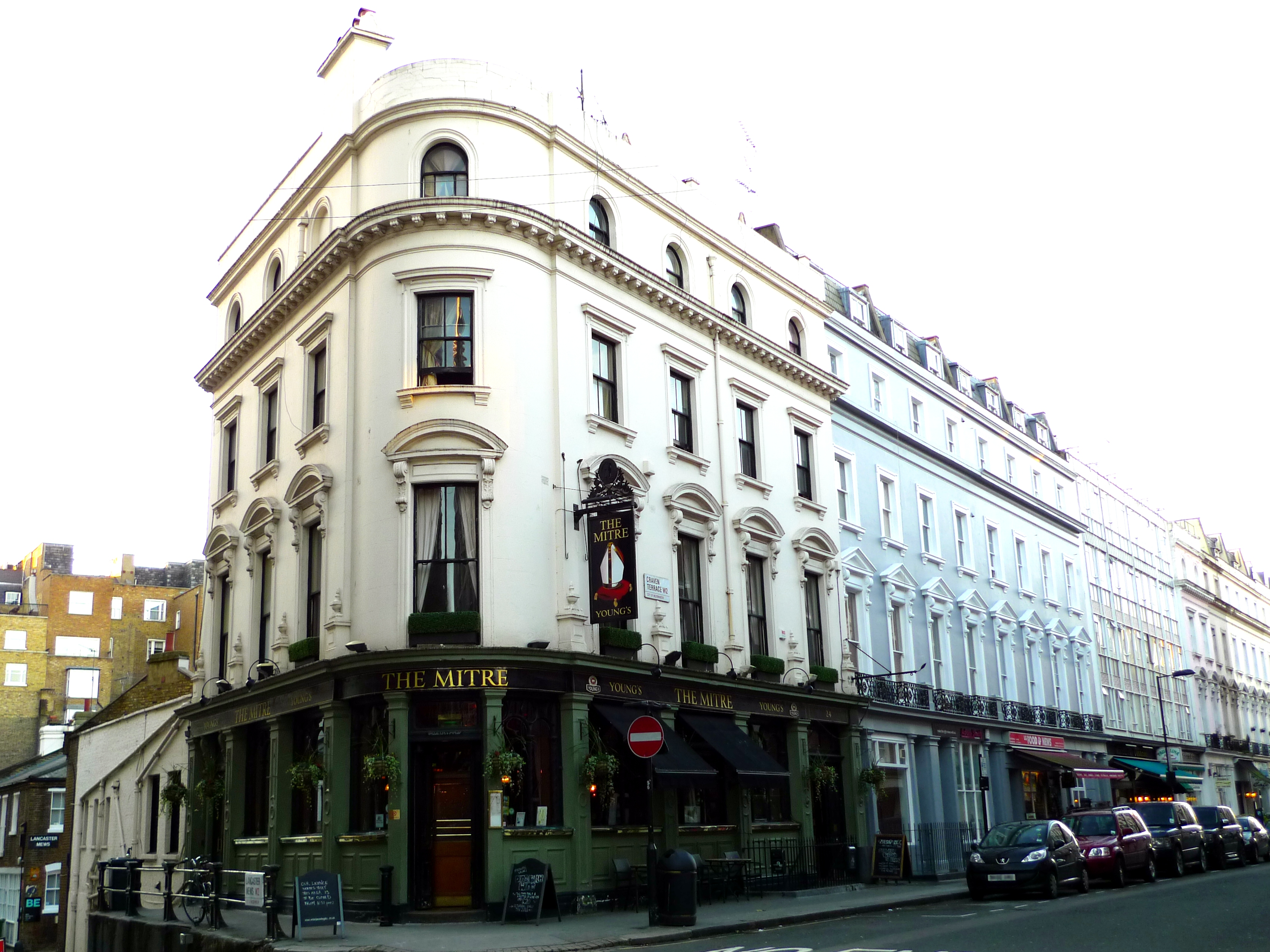 A large stately-looking pub not far from Hyde Park. (View of tiling in doorway.) Address: 24 Craven Terrace. Owner: Young's (website); Capital Pub Company (former). Links: Randomness Guide to London Fancyapint Pubs Galore Beer in the Evening Qype Dead Pubs (history)